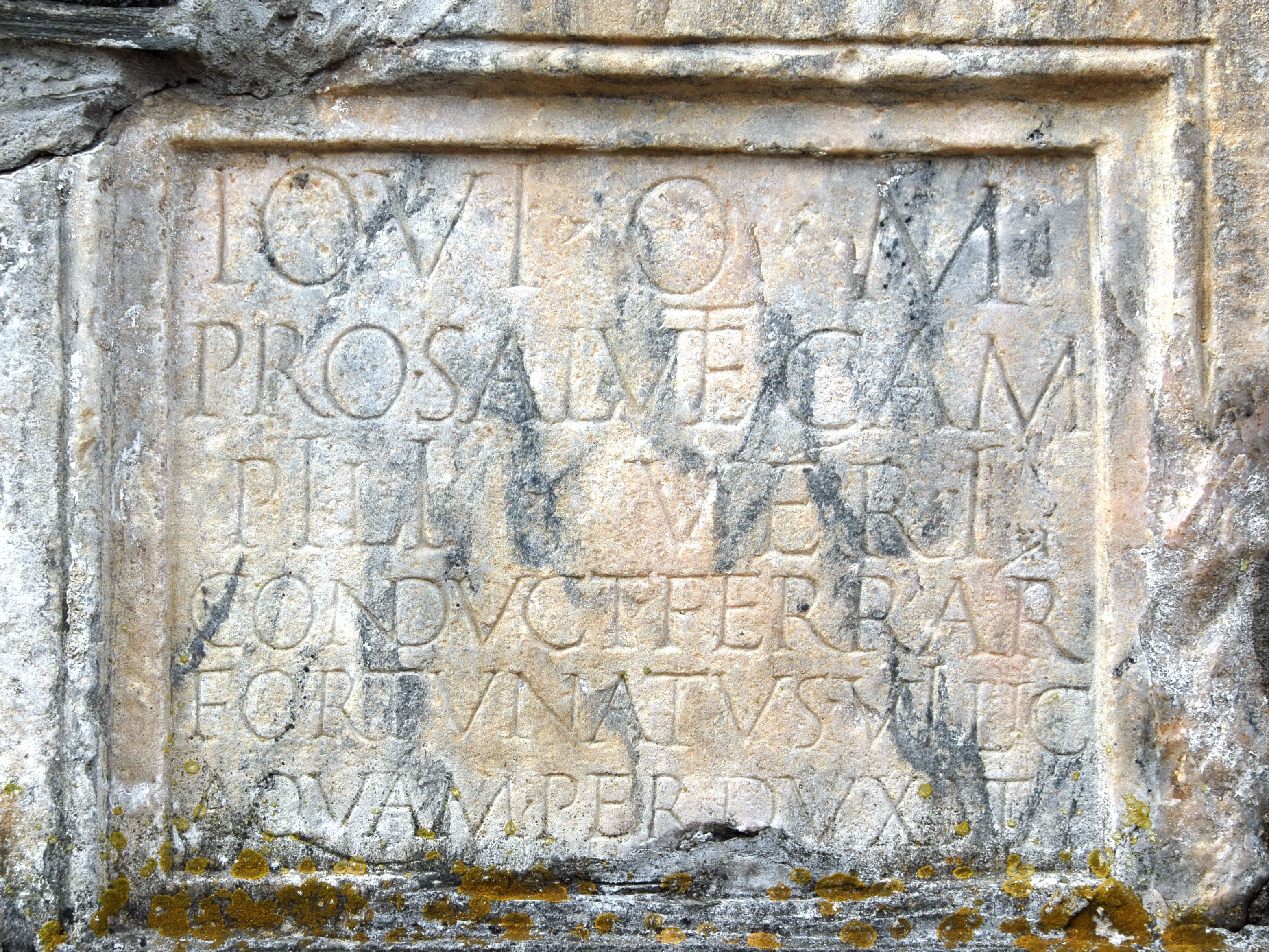 Dedication stone in latin language at Wieting in the community of Klein Sankt Paul, district Sankt Veit an der Glan, Carinthia, Austria